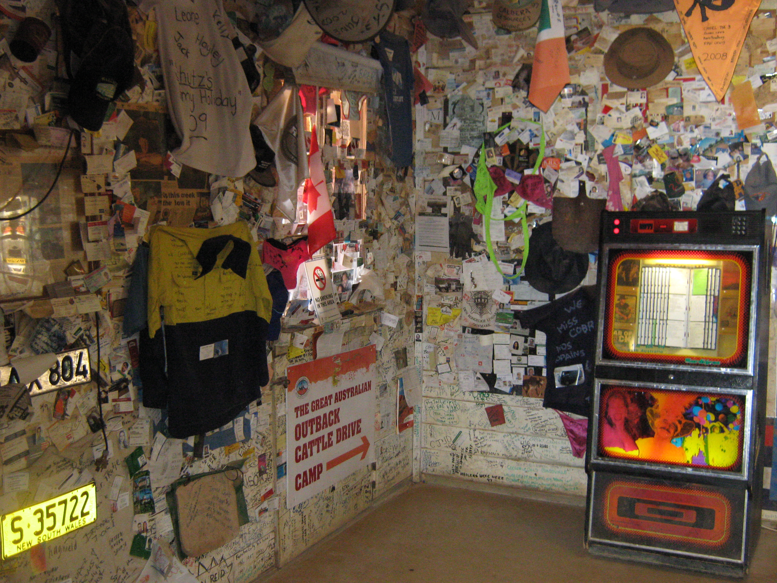 William Creek Pub from the inside